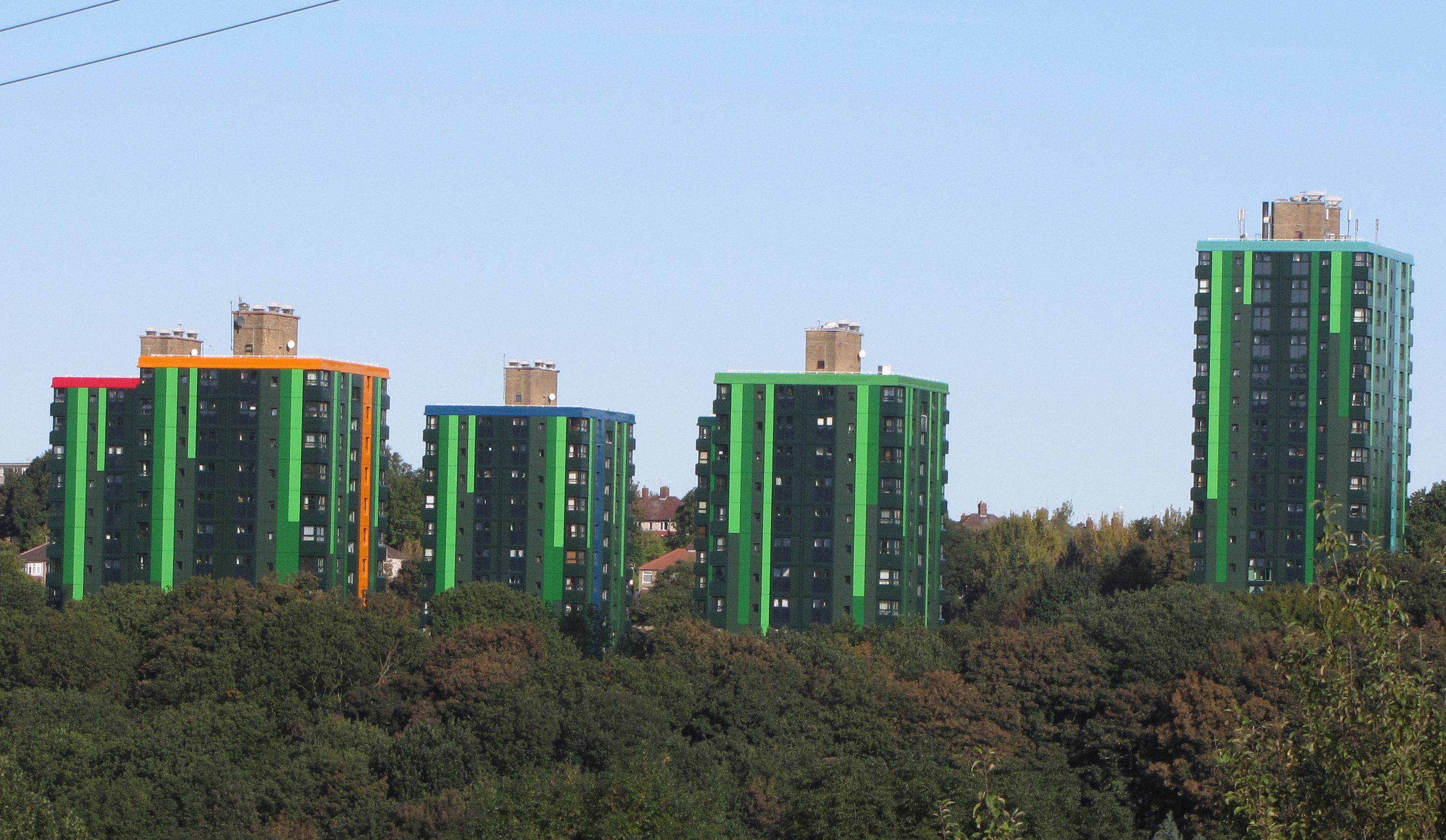 The six tower blocks at Callow Mount on the Gleadless Valley estate in Sheffield, England.